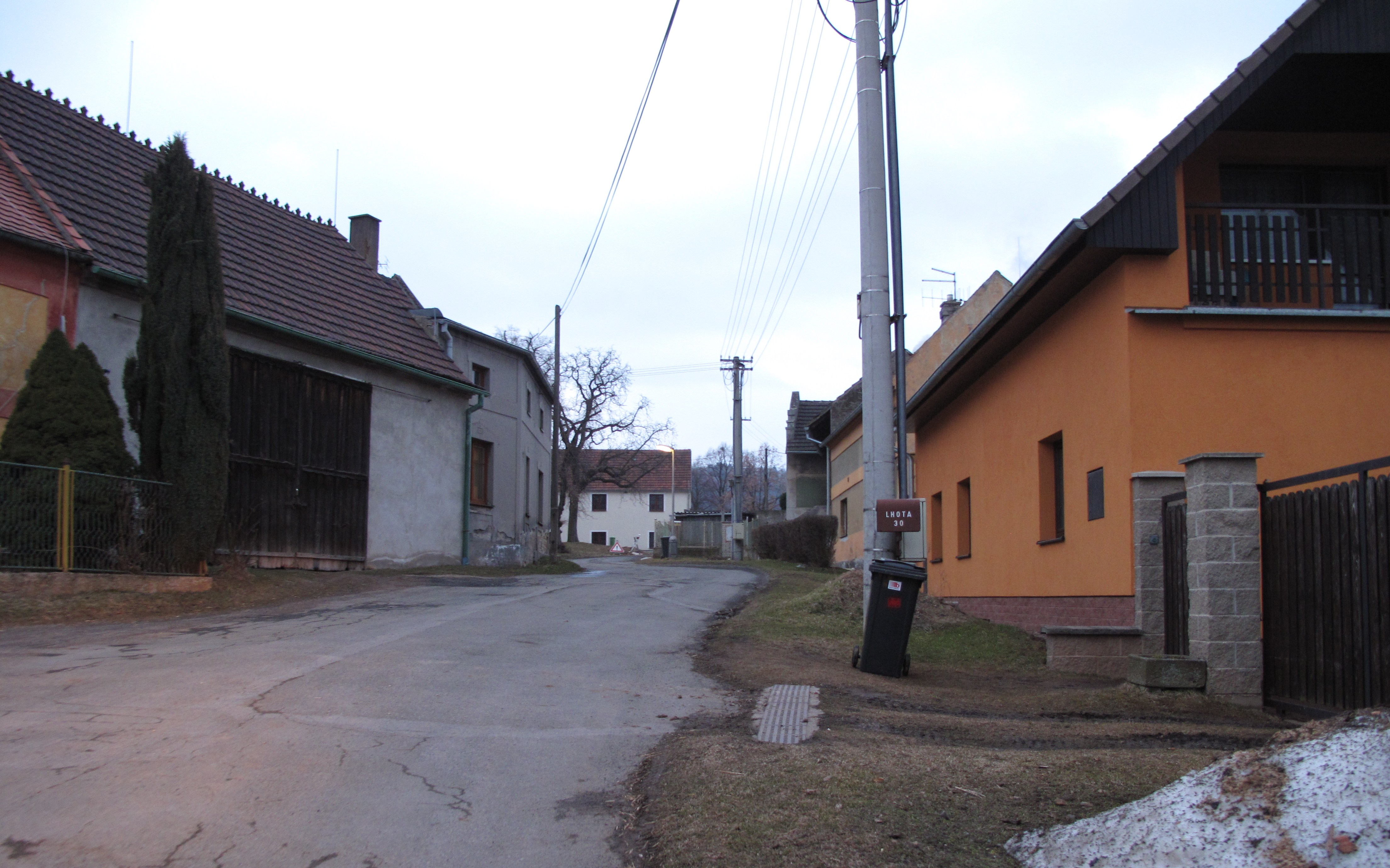 Houses in Lhota pod Džbánem village, Rakovník District, Czech Republic.